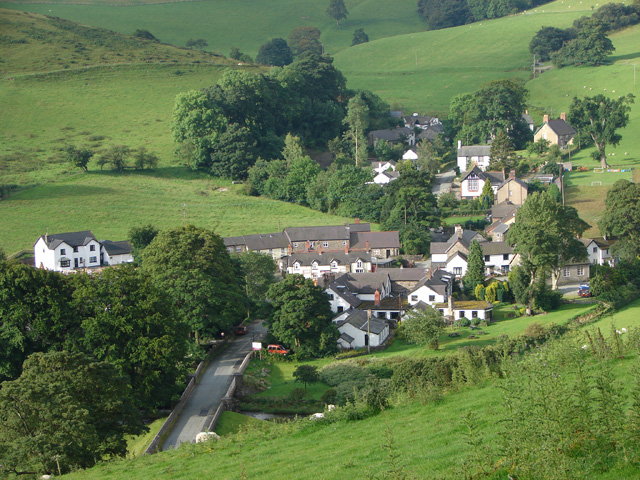 Llanarmon Dyffryn Ceiriog The attractive village of Llanarmon Dyffryn Ceiriog nestling in the Nant-y-Glog valley, seen from near Penybryn.